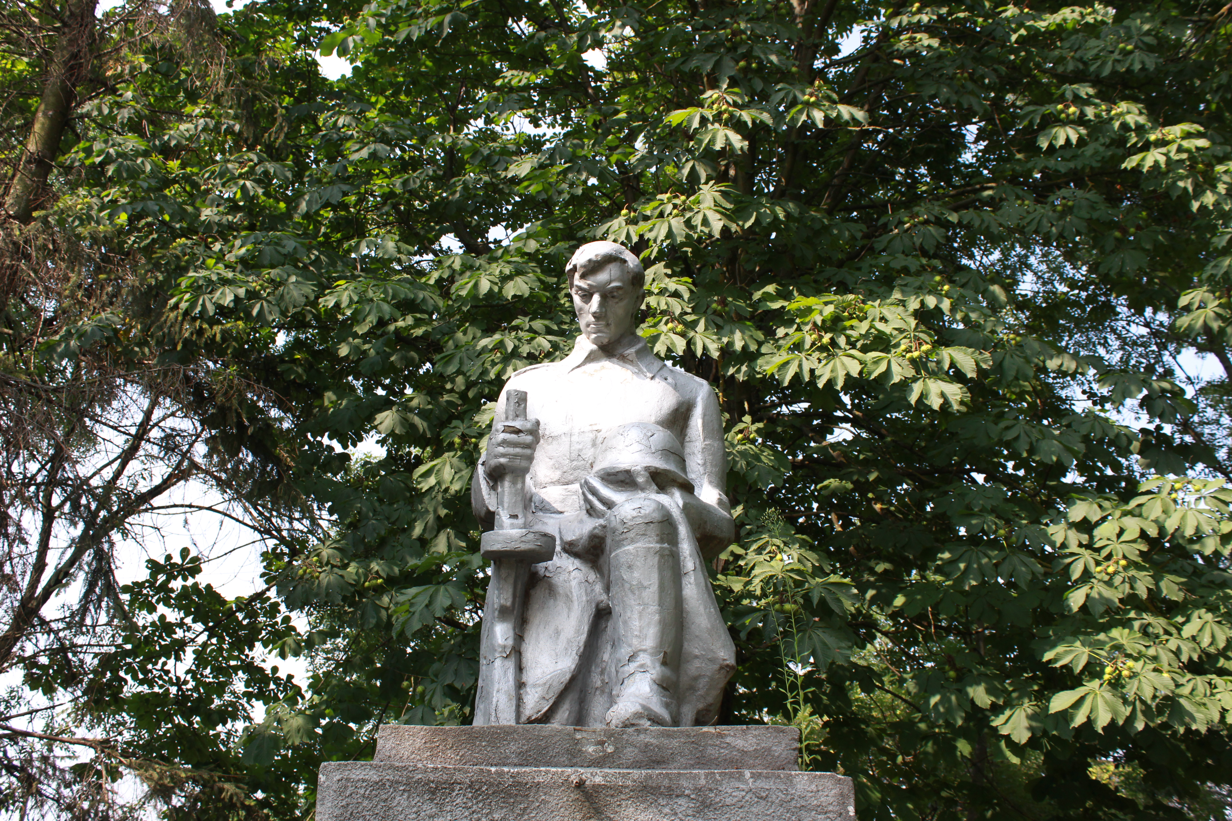 Пам'ятник воїнам-односельцям, полеглим у німецько-радянській війні